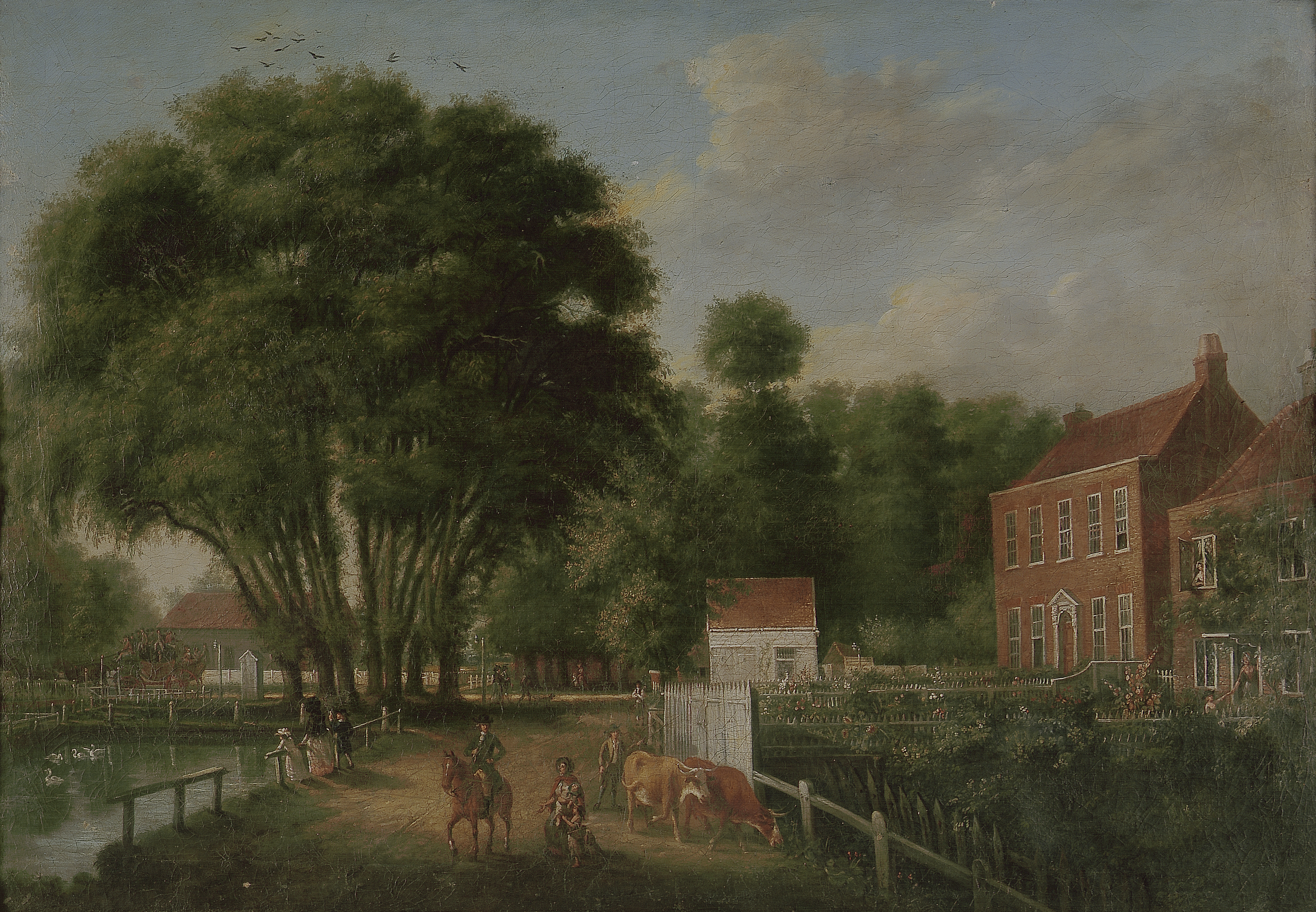 The seven sisters of Tottenham, 1790, England, by John Greenwood. The house on the right was used by John Greenwood and his family as a summer residence.